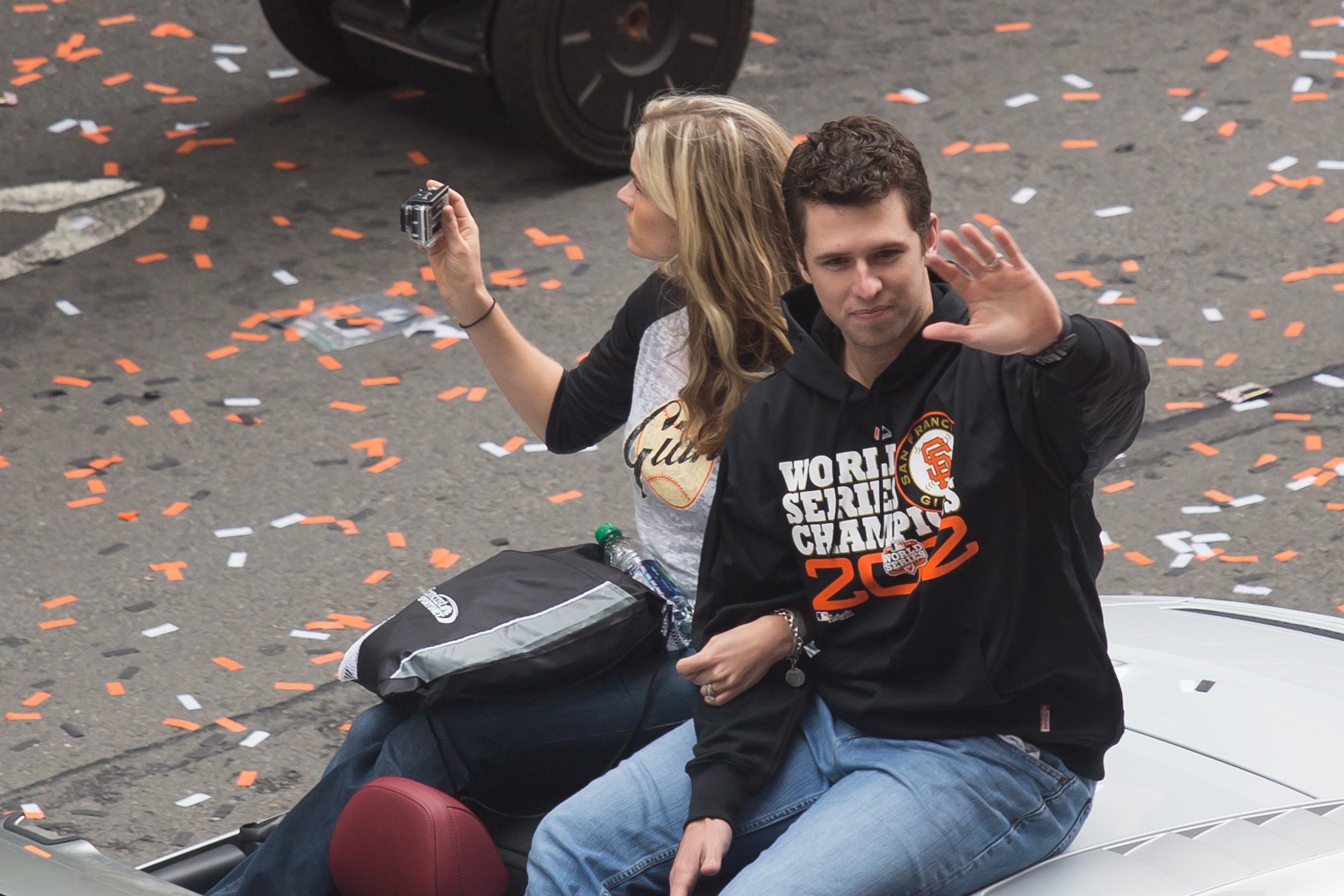 Buster Posey and his wife, Kristen, at the San Francisco Giants 2012 World Series Victory Parade.